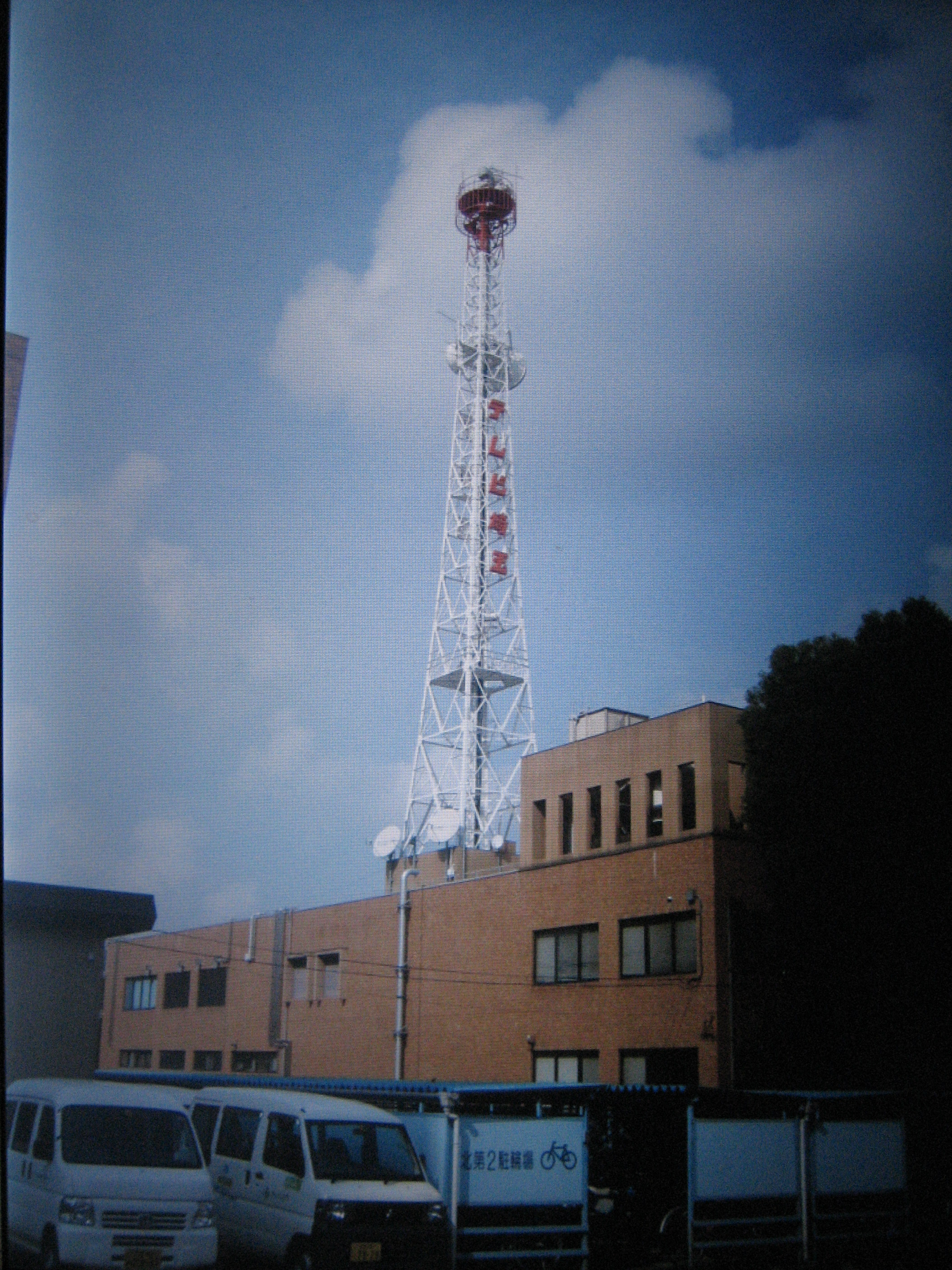 Television Saitama headquarters building